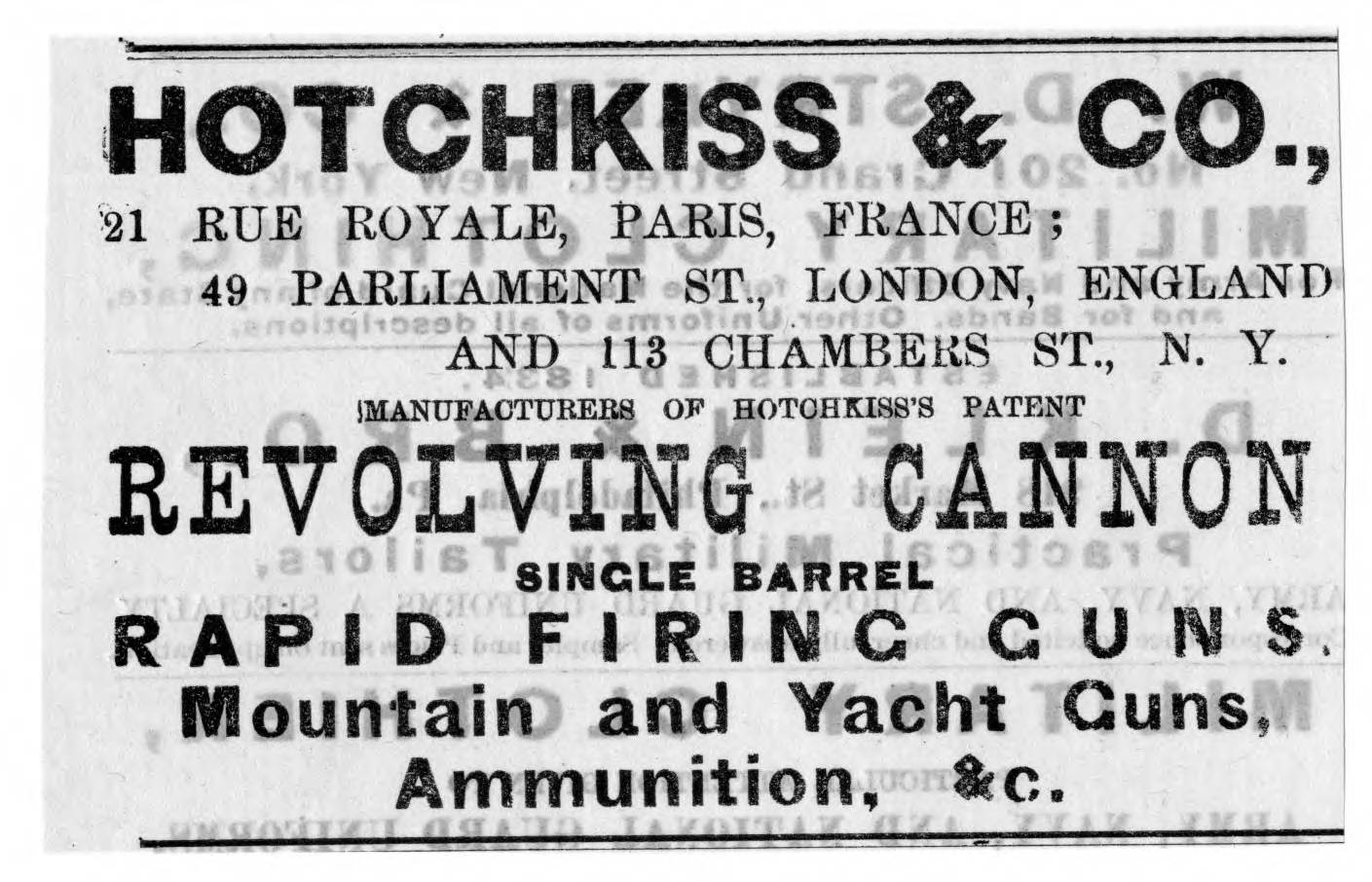 Hotchkiss & Co advertisement clipping for Revolving Cannon. Published November 28, 1885 in the Army Navy Journal. Part of the Roy Marcot Firearms Advertisement Collection.